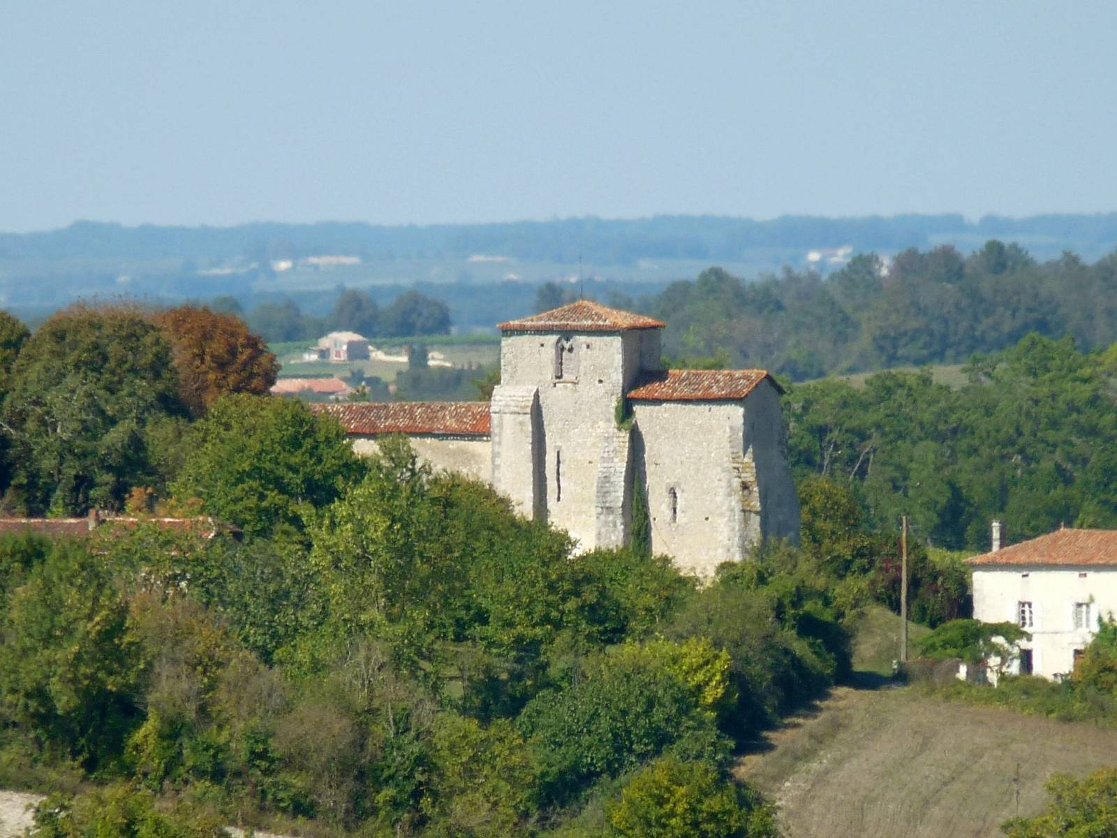 church and view of Sainte-Souline, Charente, SW France